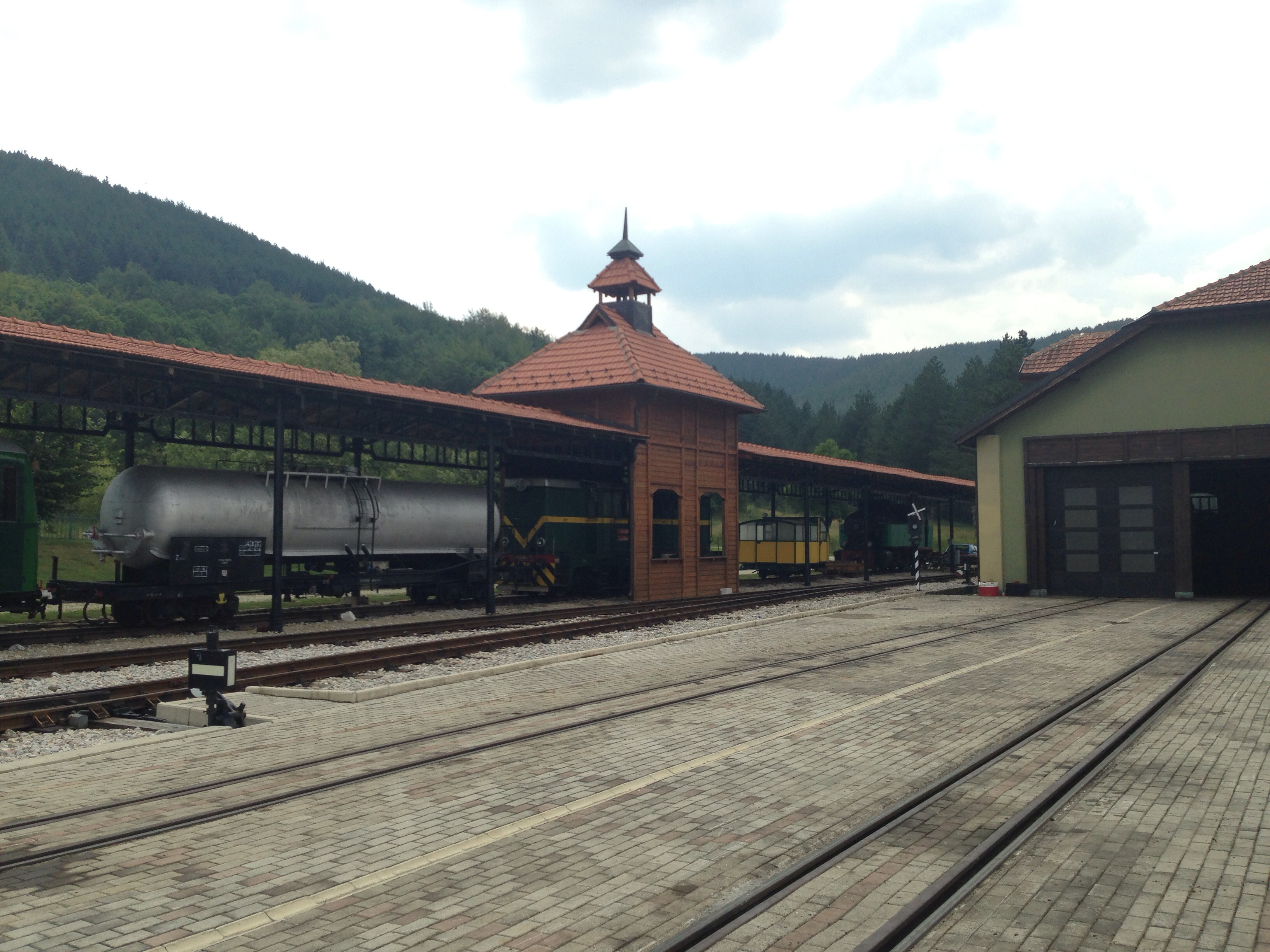 GCERC - Sargan Eight